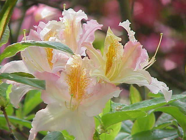 Species: Unidentified Rhododendron (uploaded as R. luteum, but definetely not this species) Family: Ericaceae Image No. 1